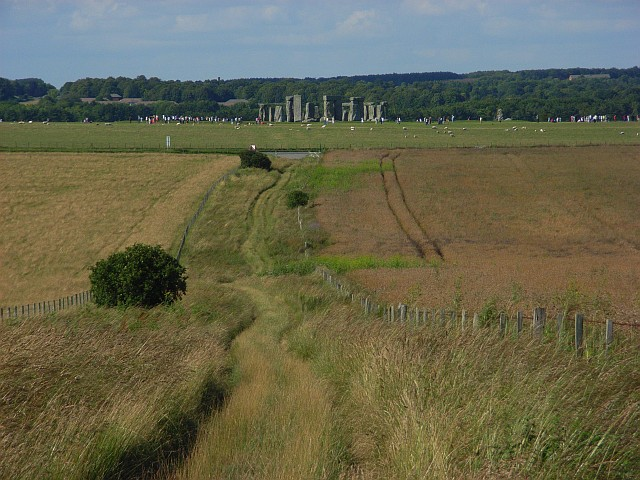 Byway, Normanton Down Descending to the A303, with Stonehenge beyond.